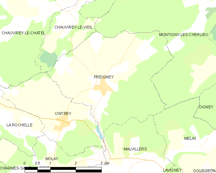 Map of French municipality